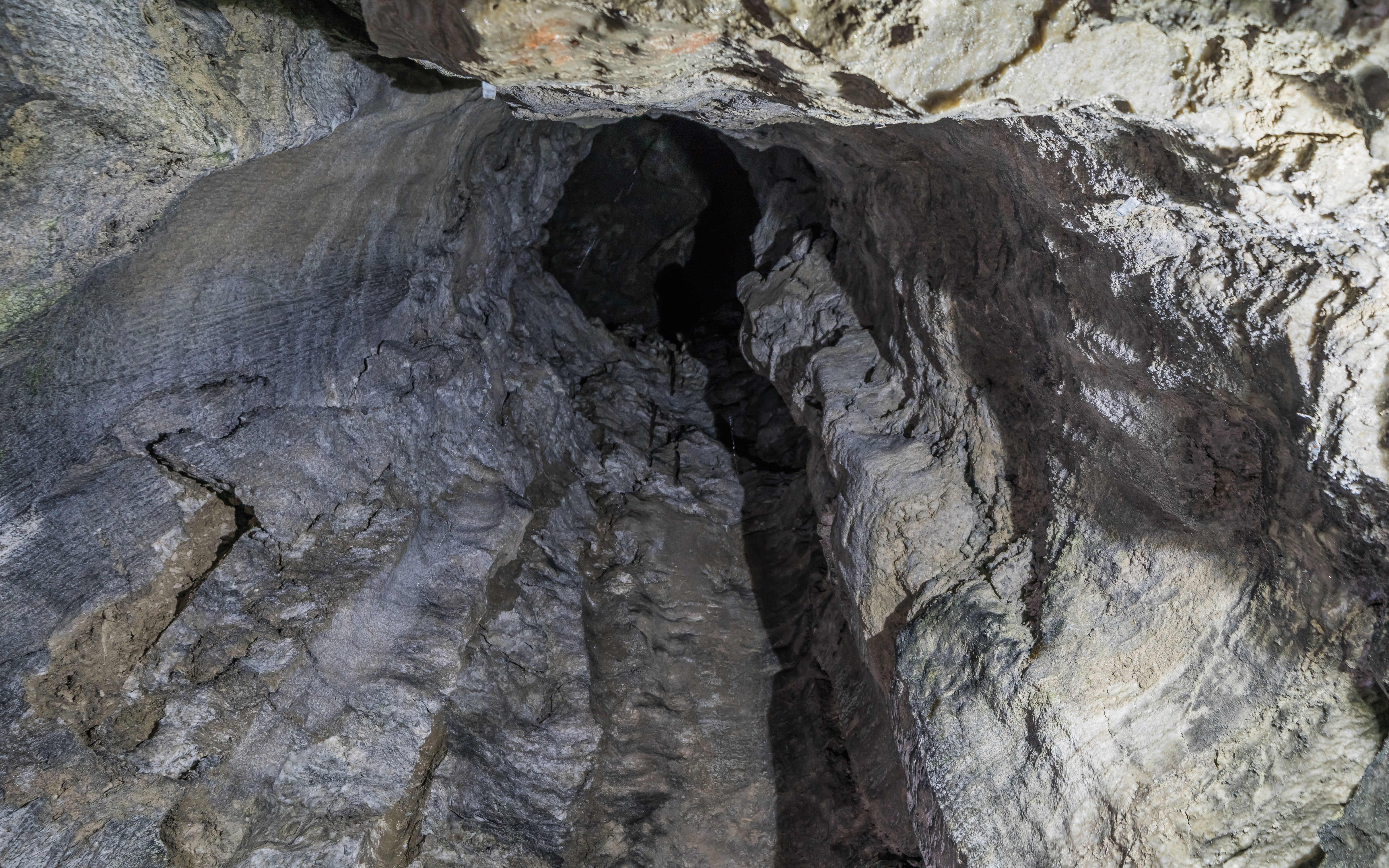 Ethereal Grotto (with Organ Pipe formation) of the Ice Cave in Kungur, Perm Krai, Russia